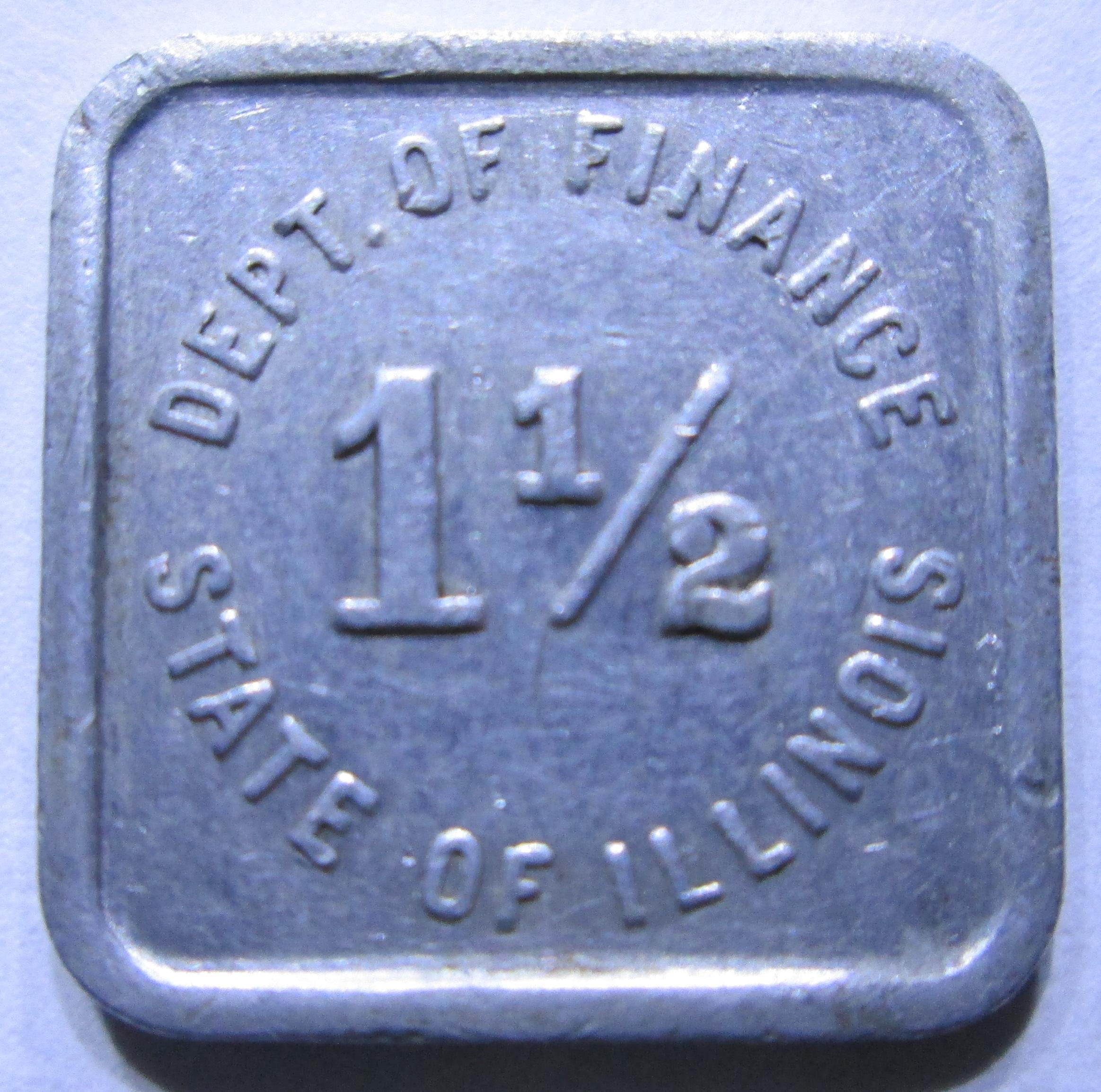 Square 1 1/2 mill sales tax token from Illinois.